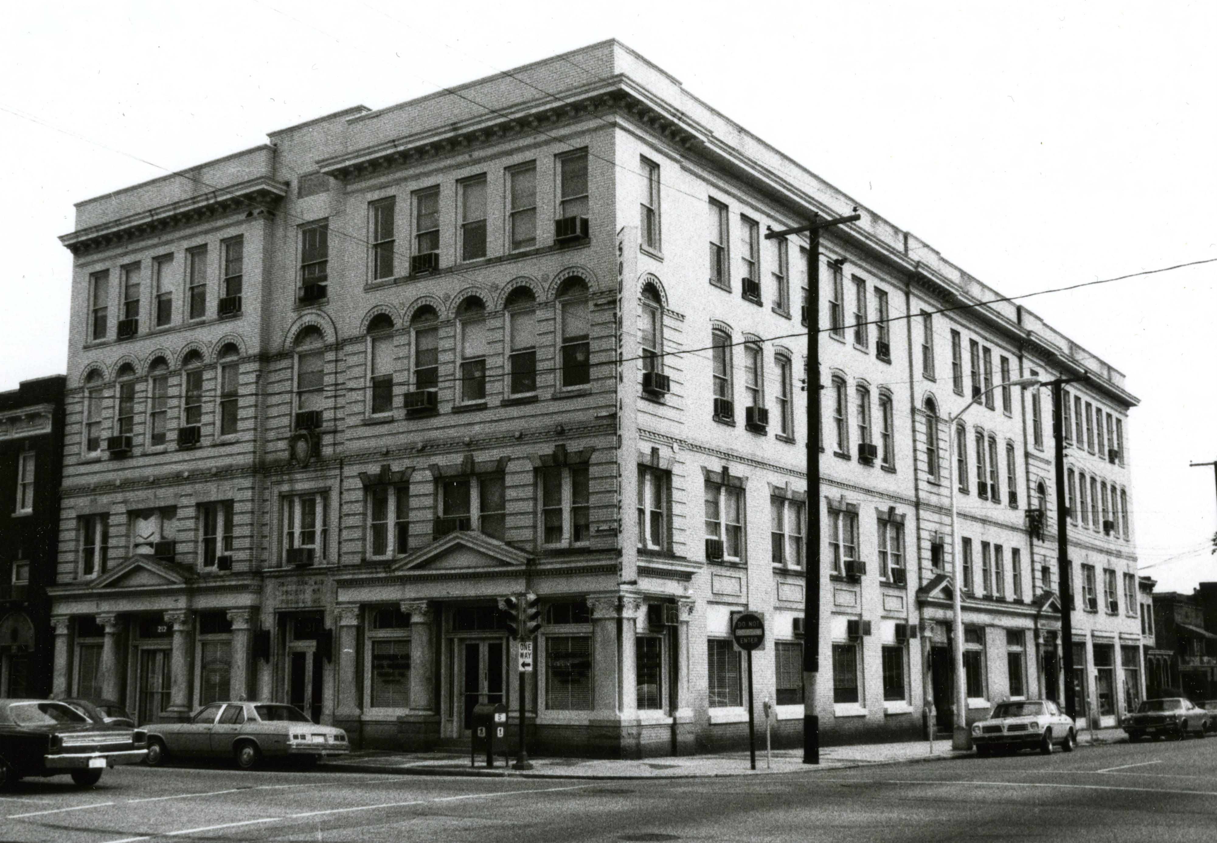 Address/Title: 212 - 214 East Clay Street Photographer: Zehmer, John G. (John Granderson), 1942- Original Description (from Book): Originally the Mechanics Bank, the office of the Southern Aid Society is housed in a building of considerable distinction. Stylistically, there are suggestions of Romanesque and Italianate motifs, but the building is a fine combination of elements with stone windows on the first level and high arched windows above. City/Location: Richmond (Va.) Date of photograph: ca. 1978 Map URL: Original Publication: Zehmer, John G., and Robert P. Winthrop. 1978. The Jackson Ward historic district. Richmond: Dept. of Planning and Community Development. Rights: Reference URL: Collection: VCU Jackson Ward Historic District